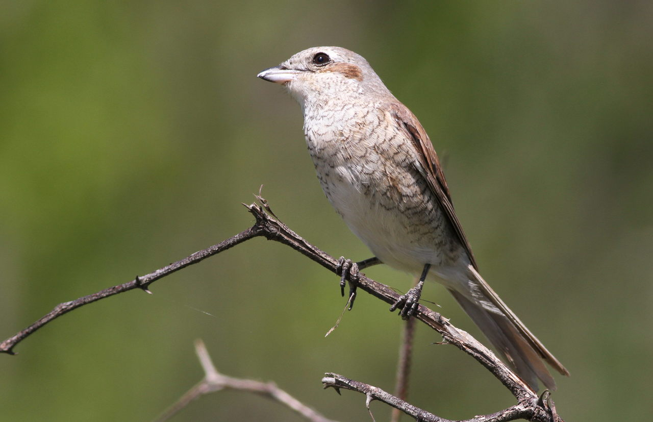 Female red-backed shrike, Lanius collurio at Marakele National Park, Limpopo, South Africa